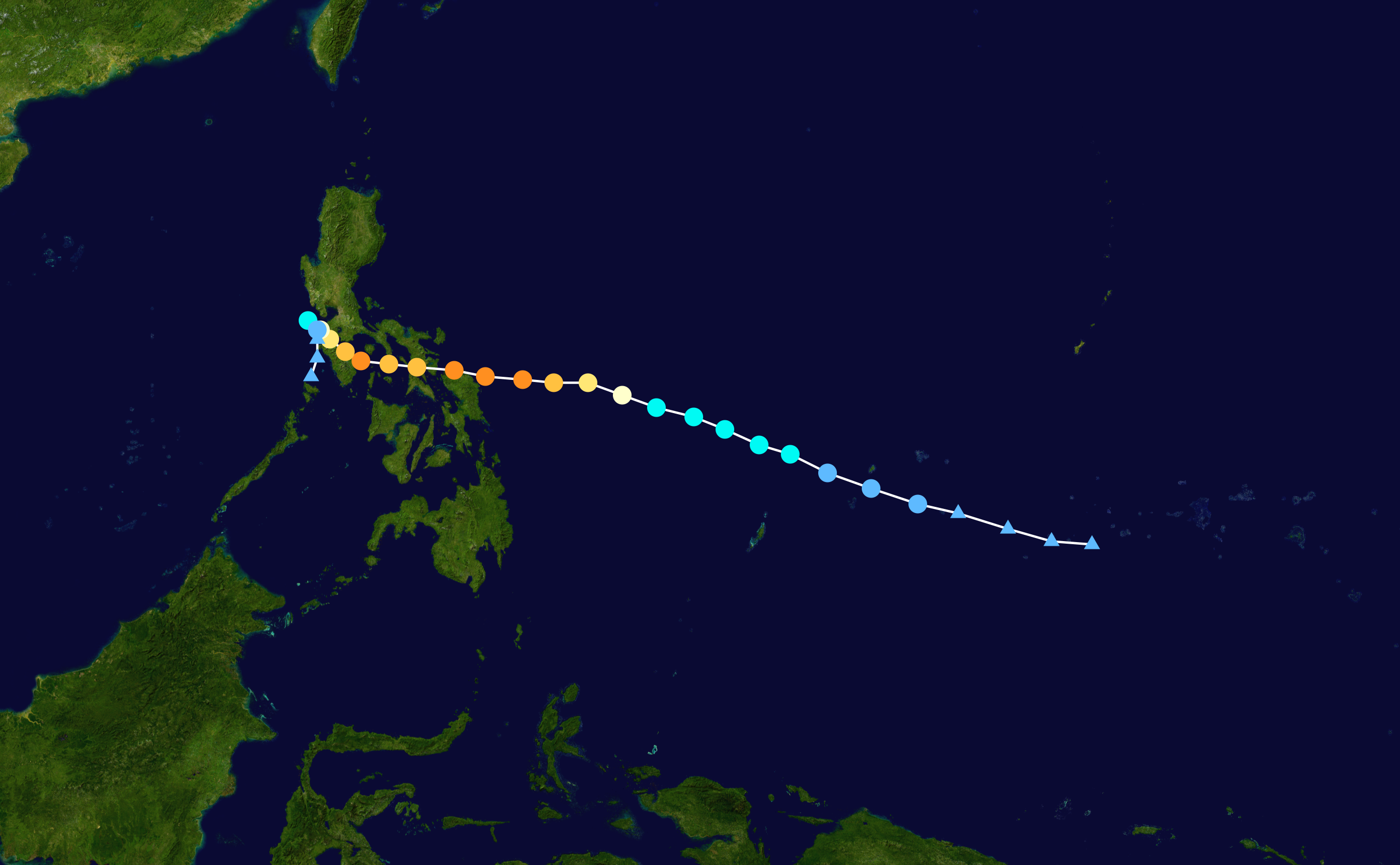 Track map of Typhoon Melor of the 2015 Pacific typhoon season. The points show the location of the storm at 6-hour intervals. The colour represents the storm's maximum sustained wind speeds as classified in the Saffir–Simpson scale (see below), and the shape of the data points represent the nature of the storm, according to the legend below. Saffir–Simpson scale Tropical depression≤38 mph≤62 km/h Category 3111–129 mph178–208 km/h Tropical storm39–73 mph63–118 km/h Category 4130–156 mph209–251 km/h Category 174–95 mph119–153 km/h Category 5≥157 mph≥252 km/h Category 296–110 mph154–177 km/h Unknown Storm type Tropical cyclone Subtropical cyclone Extratropical cyclone / Remnant low / Tropical disturbance / Monsoon depression